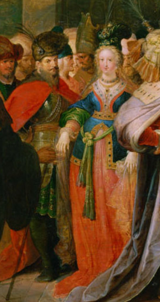 Michael the Brave and Maria Cristierna (Maria Christina of Habsburg)